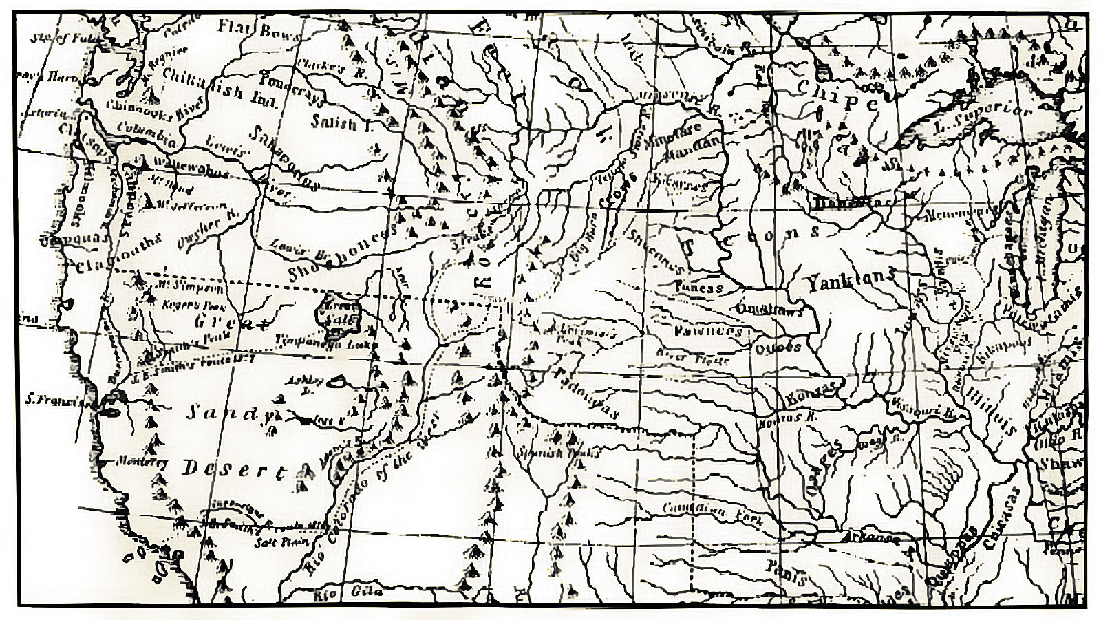 historic map by Albert Gallatin, of the western north america in 1836 with indian tribes